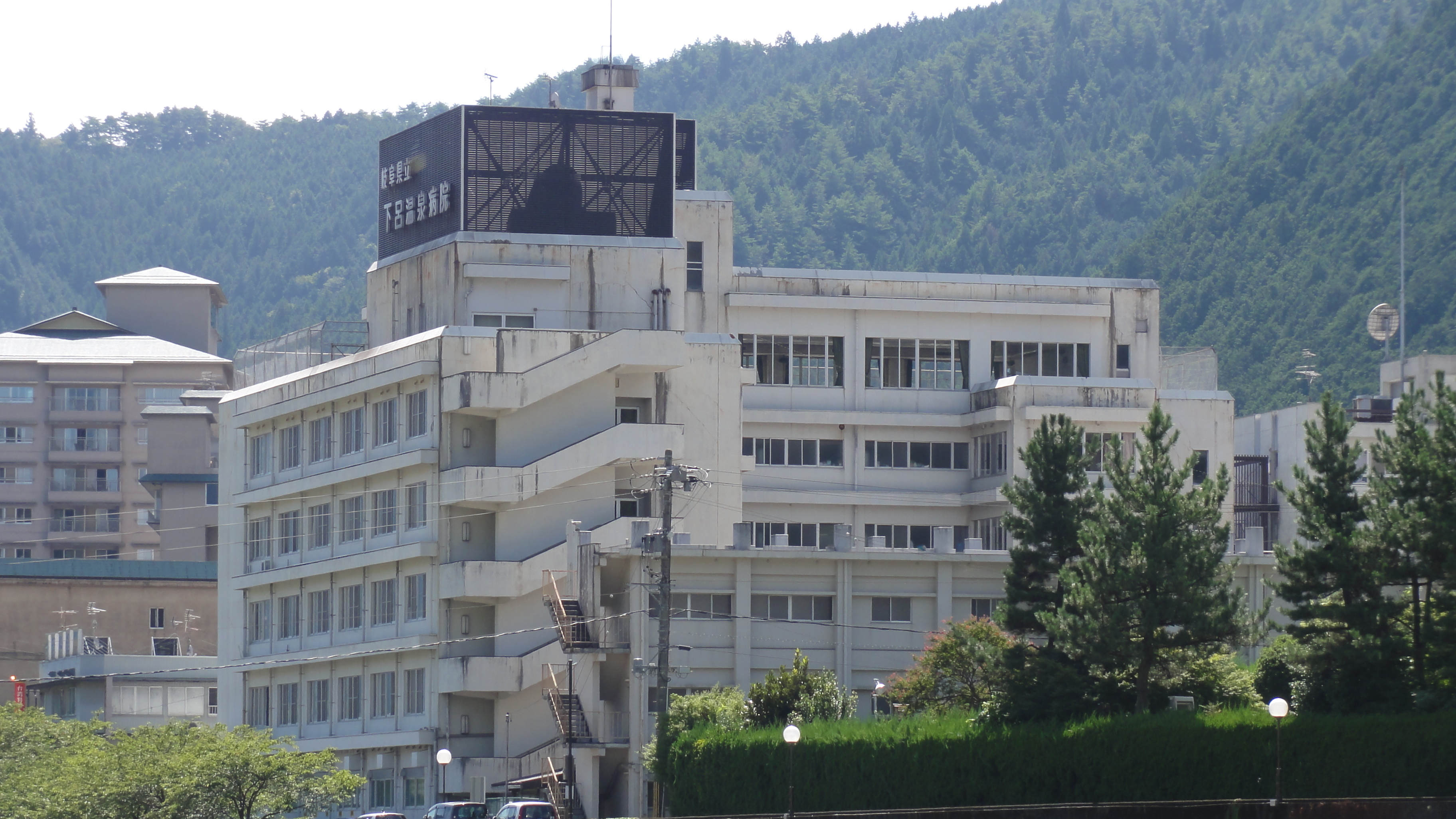 Gifu prefectural Gero hot spring Hospital,Gifu prefecture,Japan